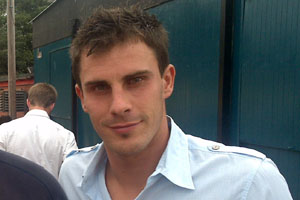 Picture of Chris Smith.